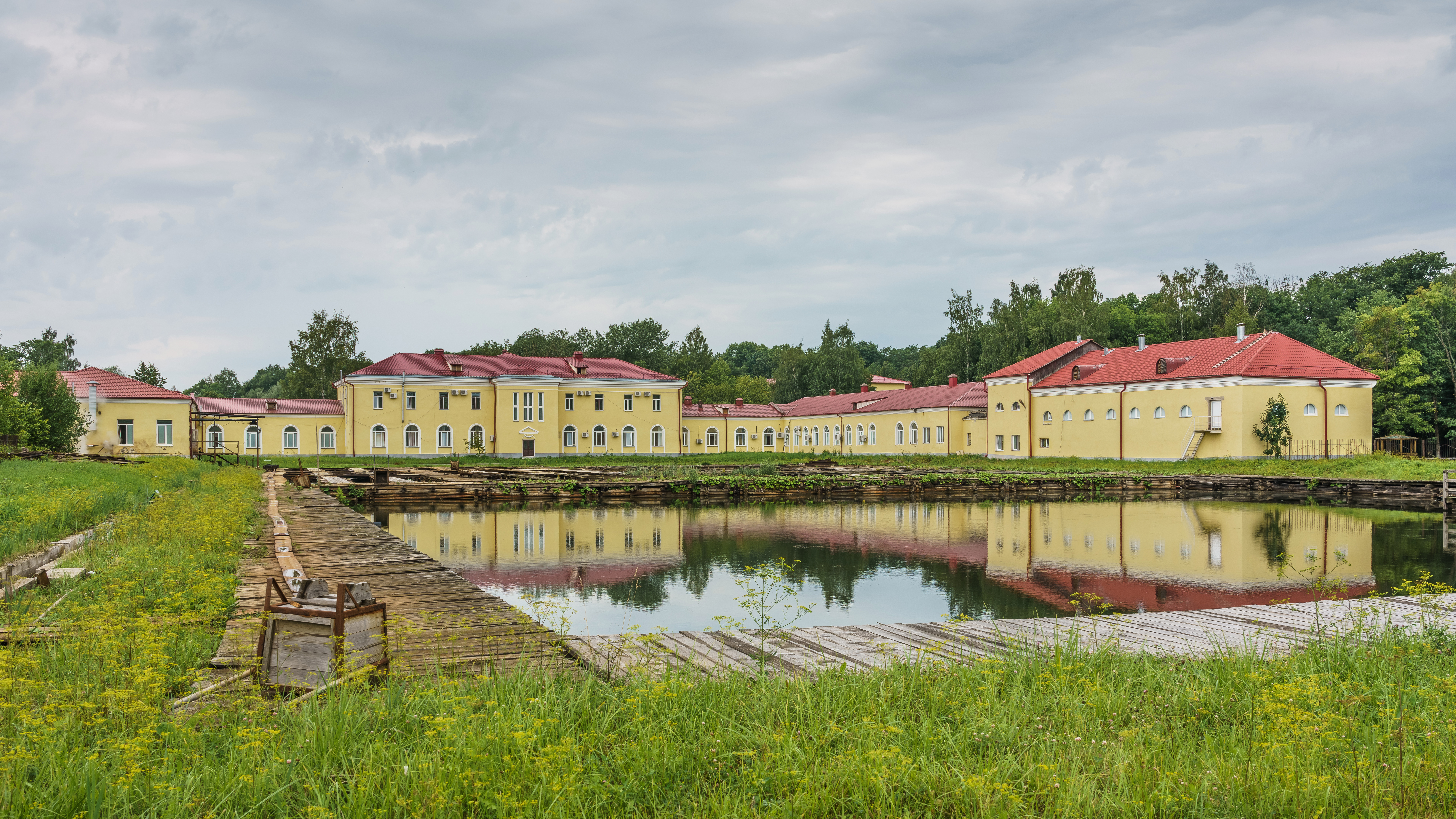 Mud bathhouse of the Resort in Staraya Russa, Novgorod Oblast, Russia